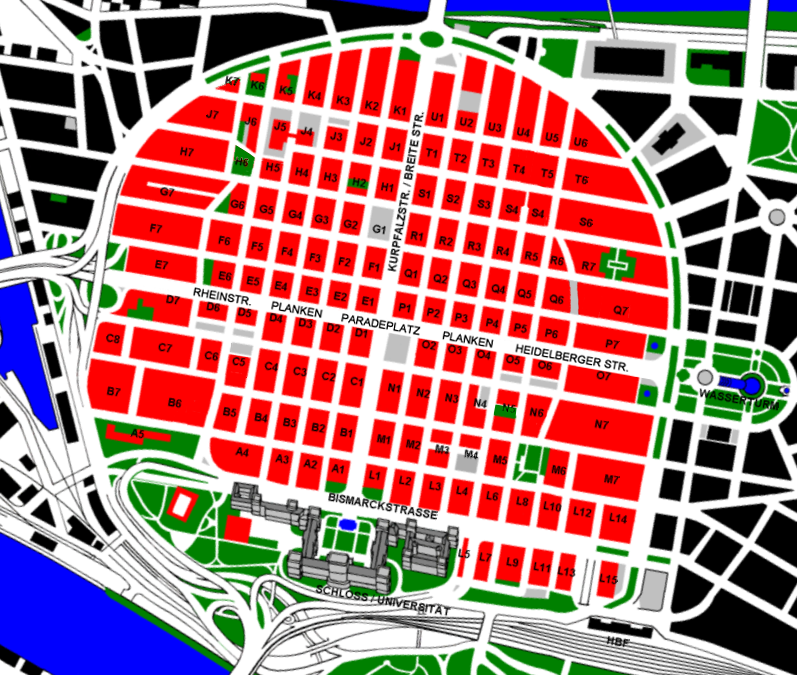 squares of Mannheim centre in Germany at the Rhine river